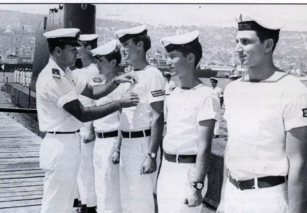 Leshem as XO of submarine INS Leviathan